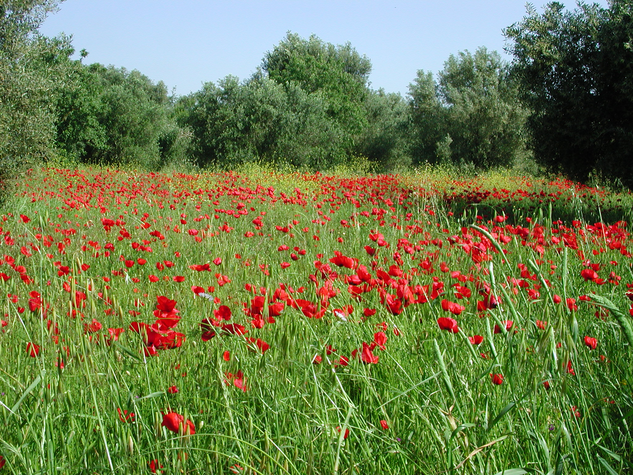 Flowering poppies (Papaver sp.) in a meadow on Kefalonia island, Greece.